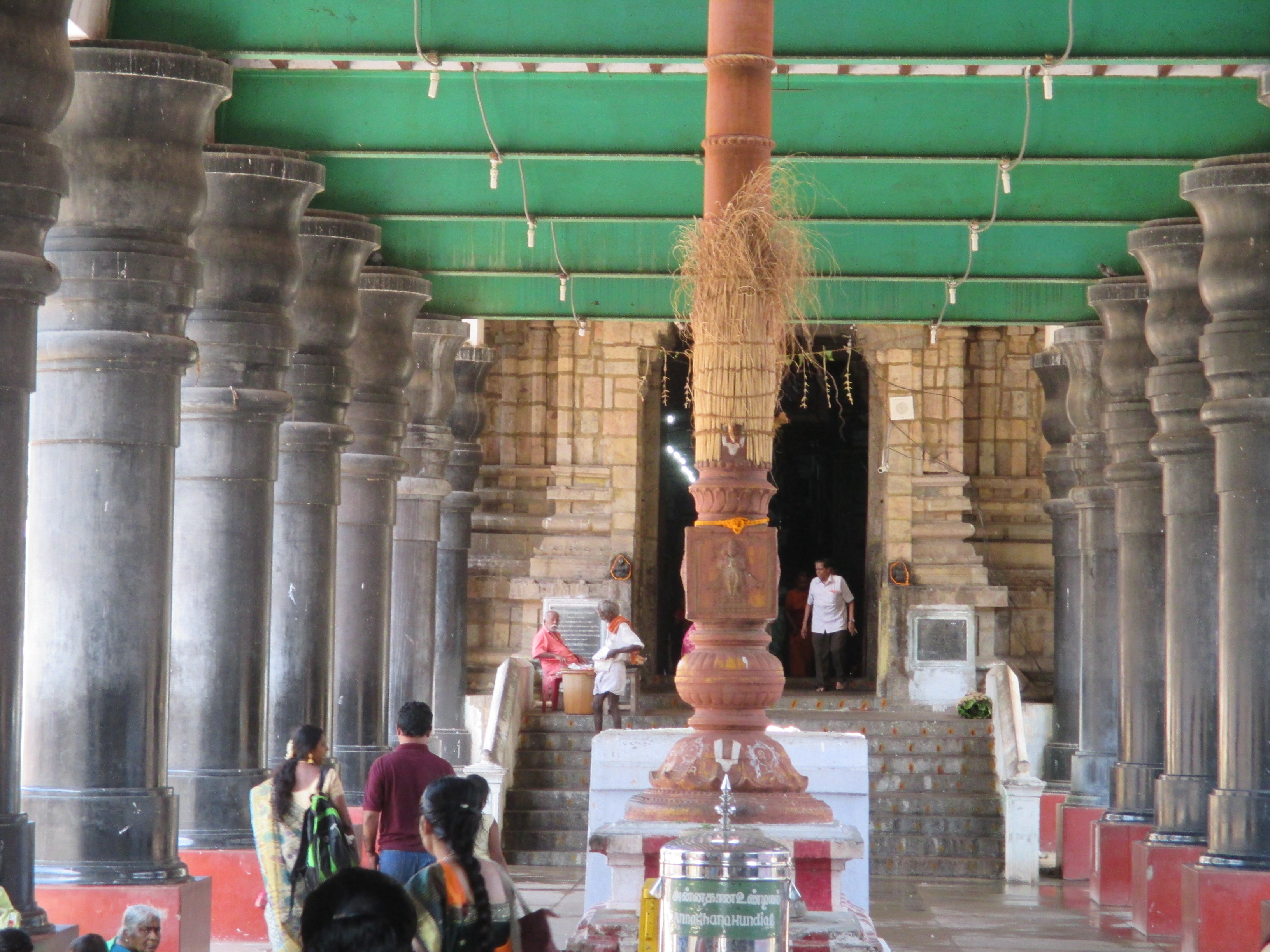 Nachiyar Kovil